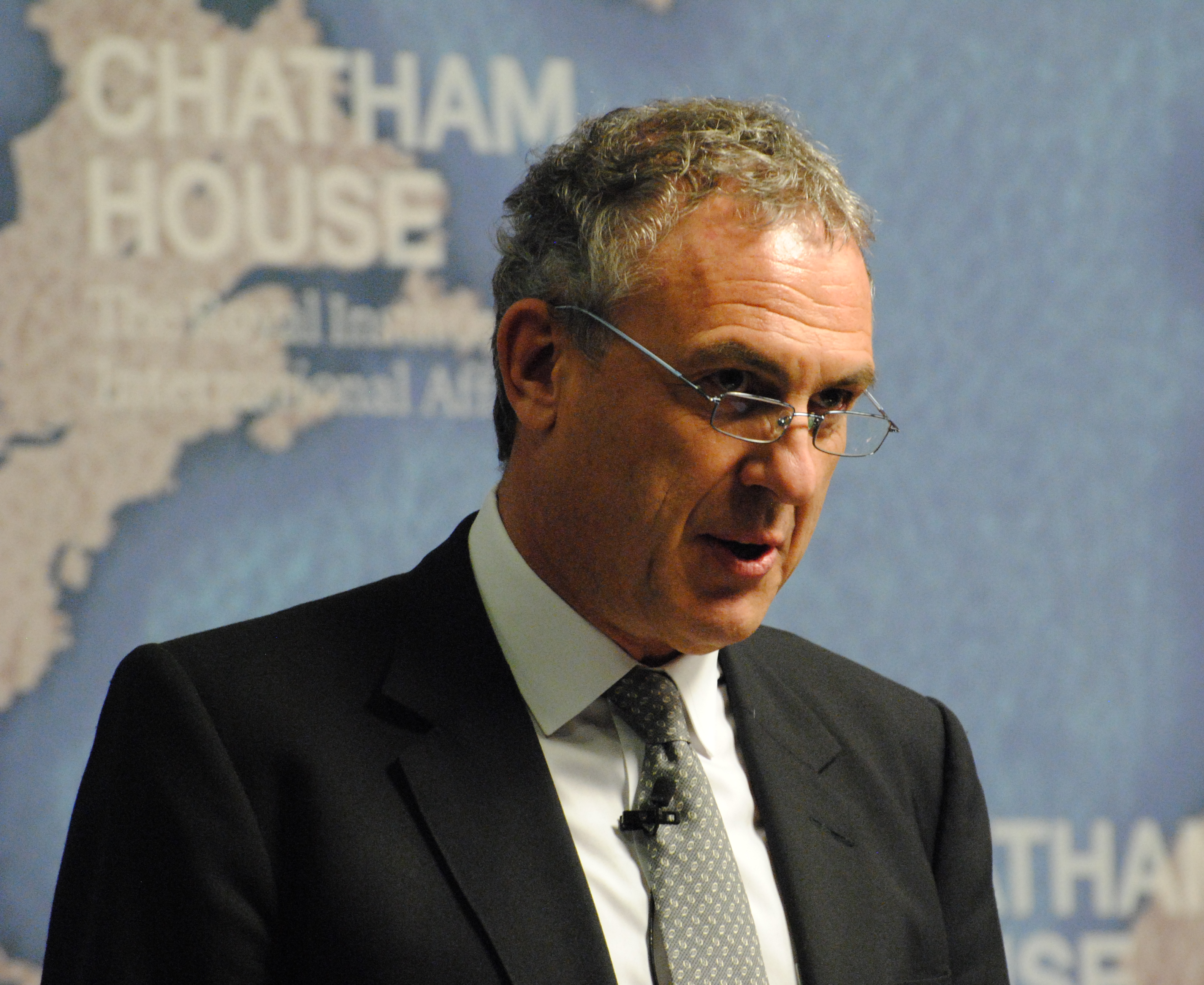 Sir Simon Fraser KCMG, Permanent Under-Secretary, Foreign and Commonwealth Office (2010-15) delivering a speech entitled "Post-2008: British Foreign Policy in an Age of Uncertainty" at Chatham House.